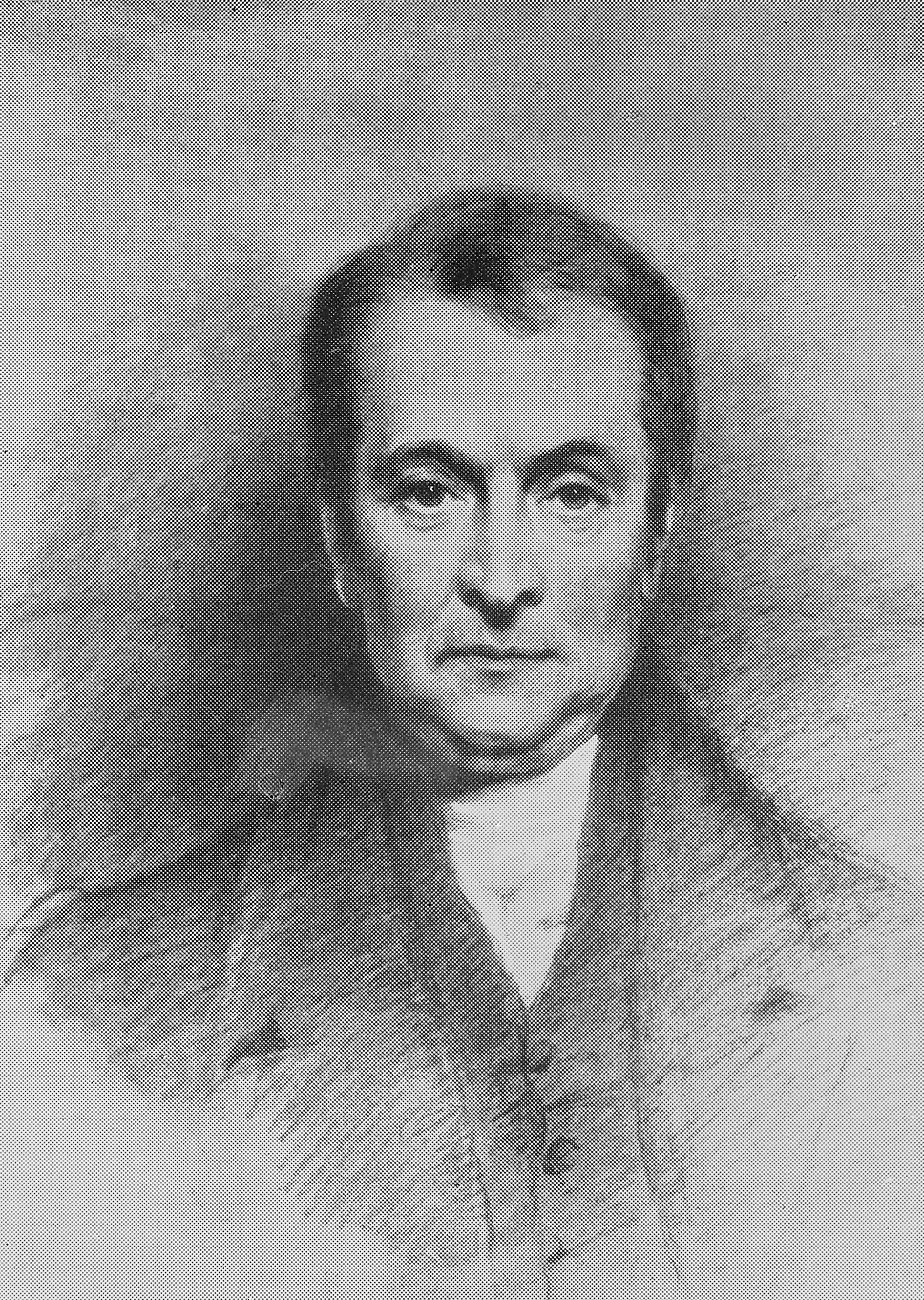 Portrait of John Kidd. Wellcome Images Keywords: John Kidd